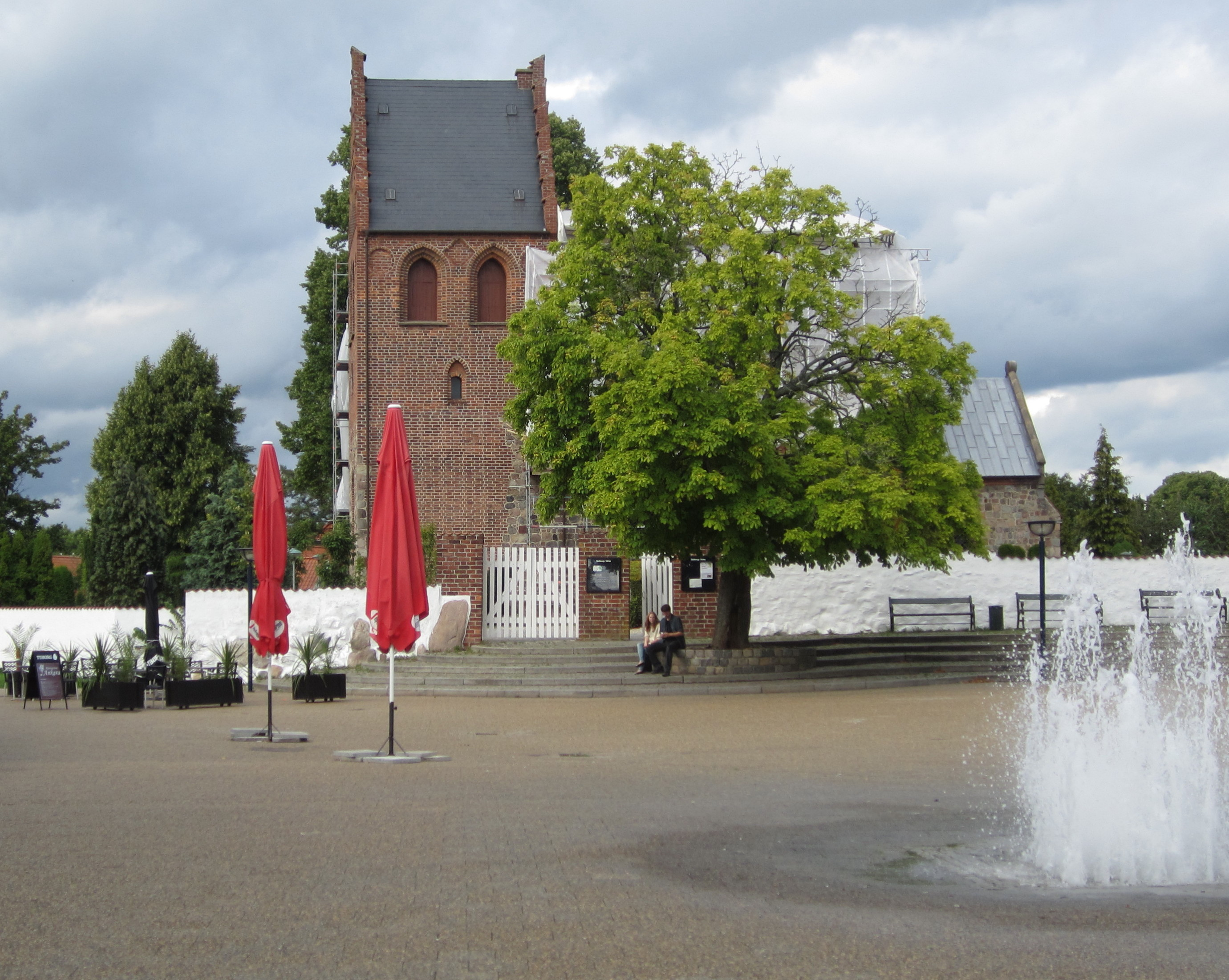 The church "Ballerup Kirke" seen from the pedestrian street "Centrumgaden". Ballerup is a suburb of Copenhagen.